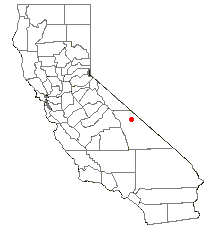 Location of Eureka Valley (town and geographic valley)— within Inyo County, eastern California. The valley is part of Death Valley National Park.